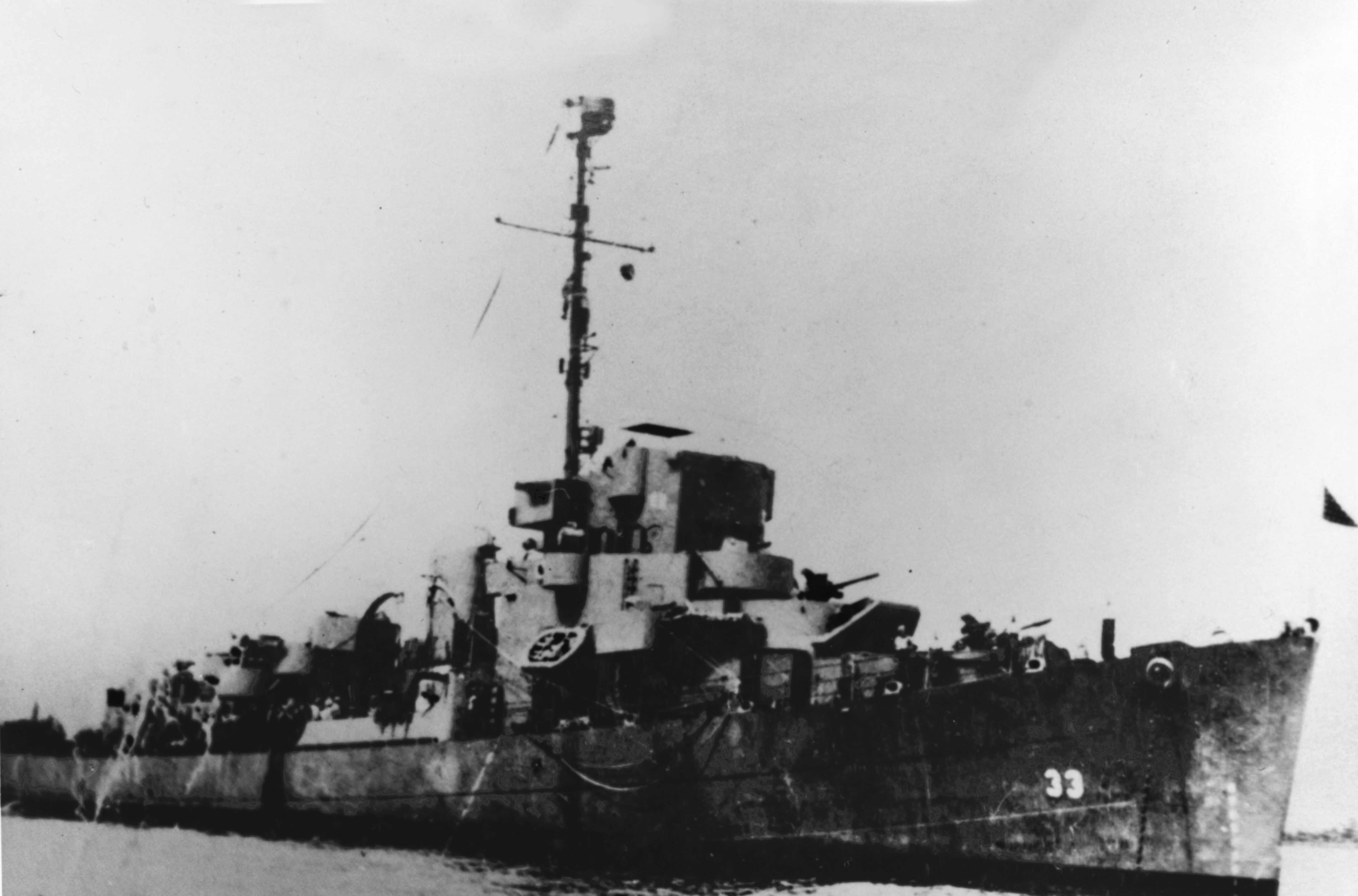 The U.S. Navy destroyer escort USS Tisdale (DE-33) photographed during World War II, probably upon her return to the U.S. in about August 1945 as she appears to be flying a long homeward bound pennant. On 14 June 1945, Tisdale departed Okinawa and headed for Leyte, Philippines. After some repairs, she cleared Leyte on 30 June and steamed, via Eniwetok and Pearl Harbor, back to the United States. She arrived in San Francisco, California (USA), on 1 August 1945 and sailed to Portland, Oregon four days later.